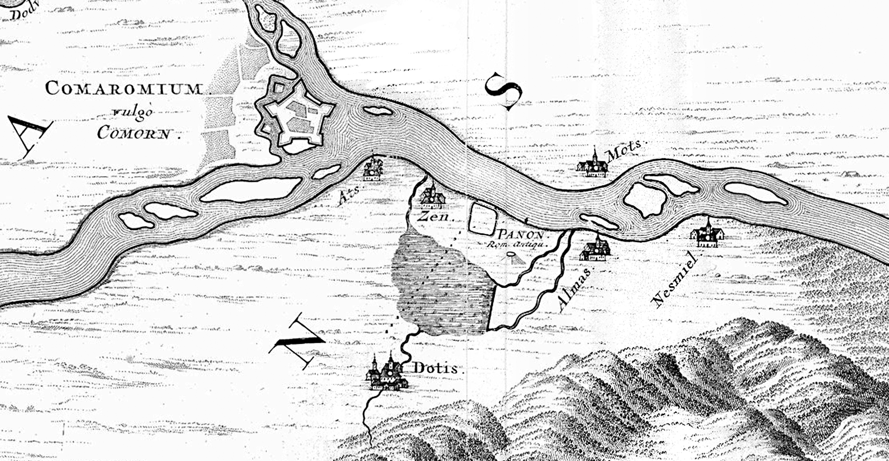 1726 work by the Italian naturalist and soldier Luigi Ferdinando Marsigli (1658 – 1730). It is a natural history encyclopedia of the lower Danube, published in 6 volumes in both The Hague and Amsterdam. The extensive work covers cartography (vol. 1), classical studies (vol. 2), mineralogy (vol. 3), fish fauna (vol. 4), birds (vol. 5) and other subjects (vol. 6). Detailed information by volumes: Volume 1: In tres partes digestus geographicam, astronomicam, hydrographicam contains geographical, astronomical and hydrographical data related to the Danube. Volume 2: De antiquitatibus Romanorum ad ripas Danubii covers Ancient Roman remains by the Danube. Volume 3: De mineralibus circa Danubium effossis reviews minerals in the Danube area. Volume 4: De piscibus in aquis Danubii viventibus discusses the fish of the Danube. Volume 5: De avibus circa aquas Danubii vagantibus, et ipsarum nidis catalogs the birds Marsigli encountered along the Danube. Includes 74 plates after drawings by the Italian artist Raimondo Manzini (1658-1730), including 59 birds and 15 nests with clutches, some of the earliest illustrations of its kind in the history of ornithology Volume 6: De fontibus Danubii. Observationes anatomicae. De Aquis Danubii et Tibisci. Catalogus plantarum. Observationes habitae cum barometris et thermometris. De Insectis covers the springs of the Danube, anatomy, plants, insections and observations on pressure and temperature.